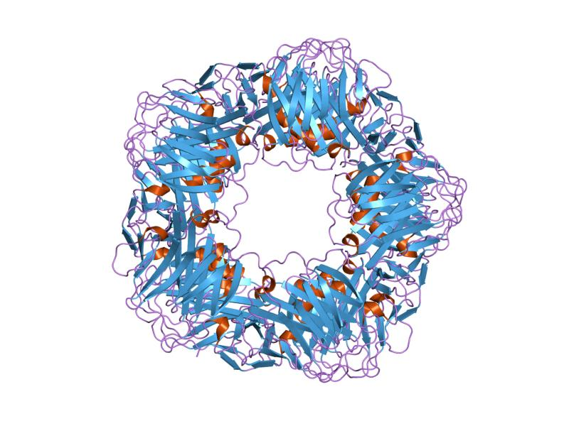 Cartoon representation of the molecular structure of protein registered with 1lj7 code.